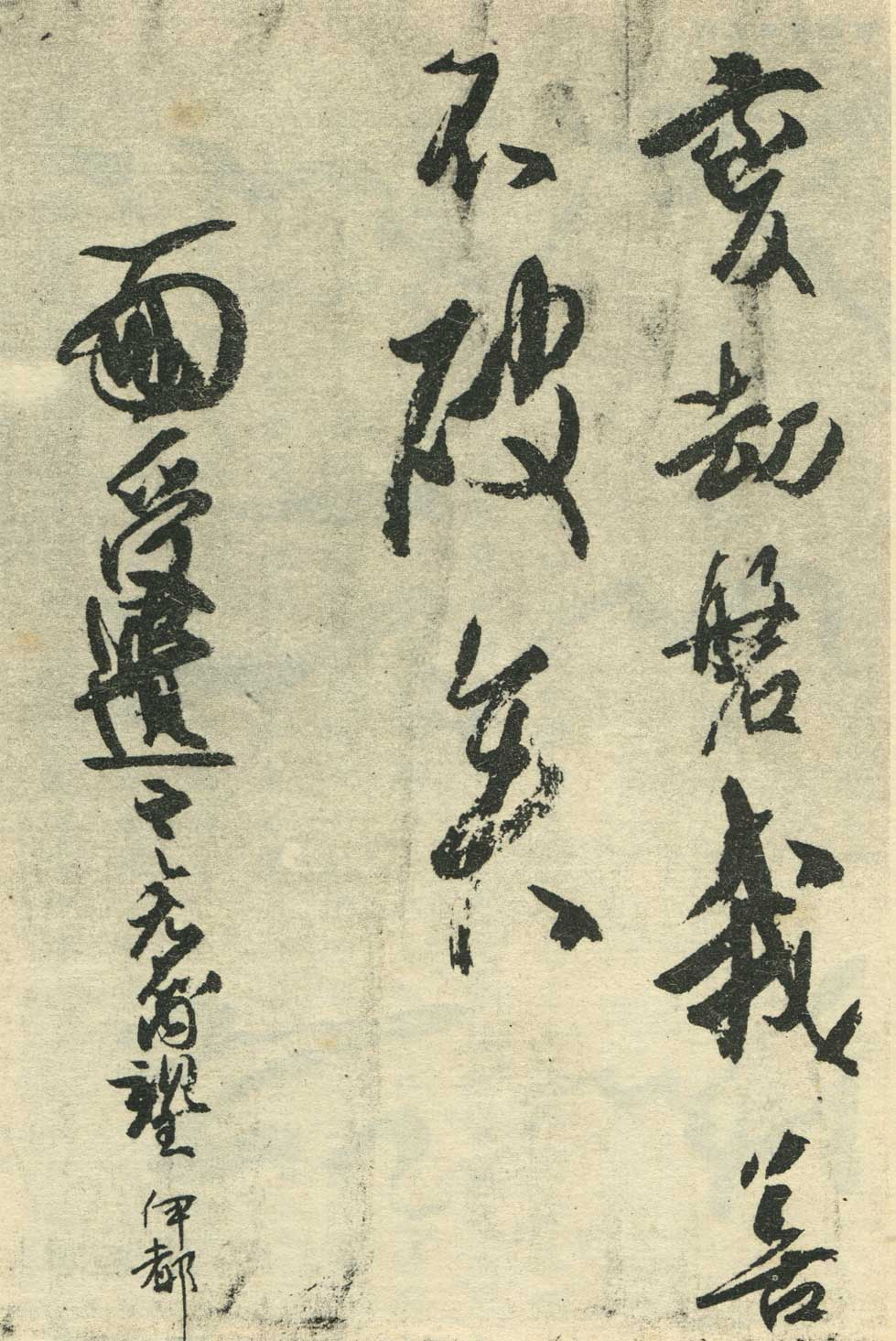 Ito Naishinnou Ganmon (2), written by Tachibana no Hayanari, stored in the Imperial collections.